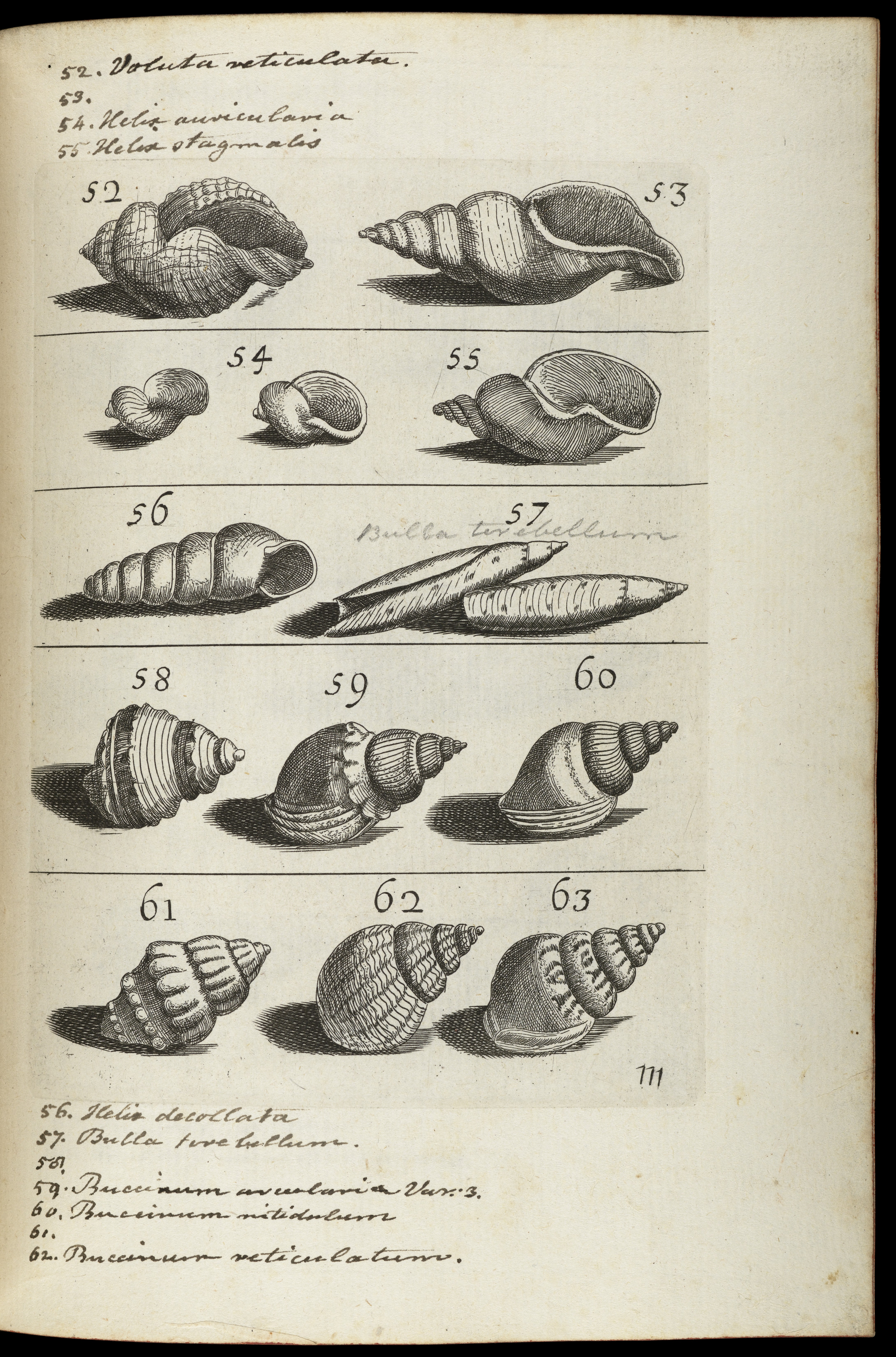 Illustrations no's 52-63 in "Recreatio mentis et ocvli in obseruatione animalium testaceorum. Curiosis naturæ inspectoribus italico sermone primùm" by Filippo Buonanni Various illustrations of shells Medical Photographic Library Keywords: Shell; Mollusca; Filippo Buonanni; Sea